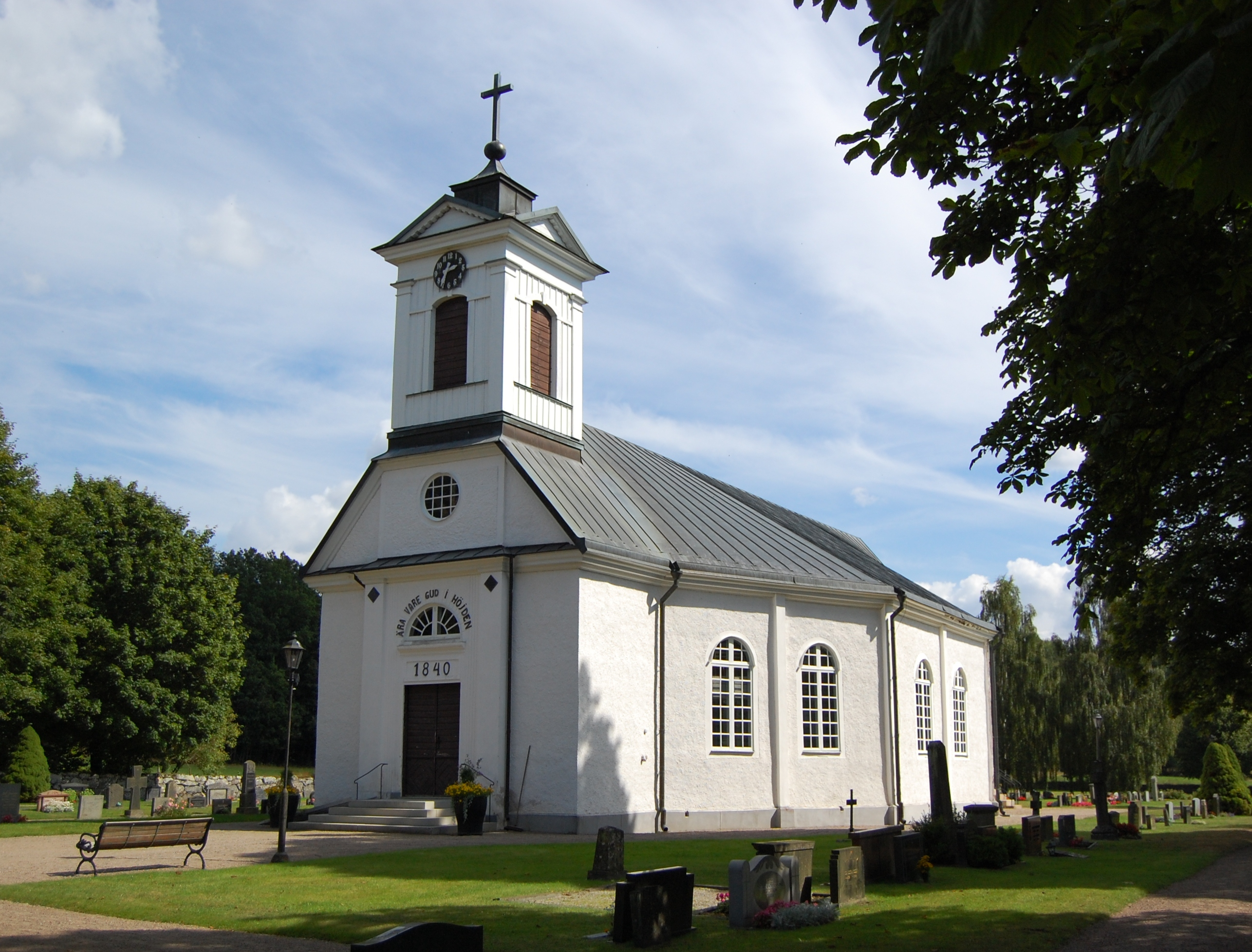 Öljehults Church